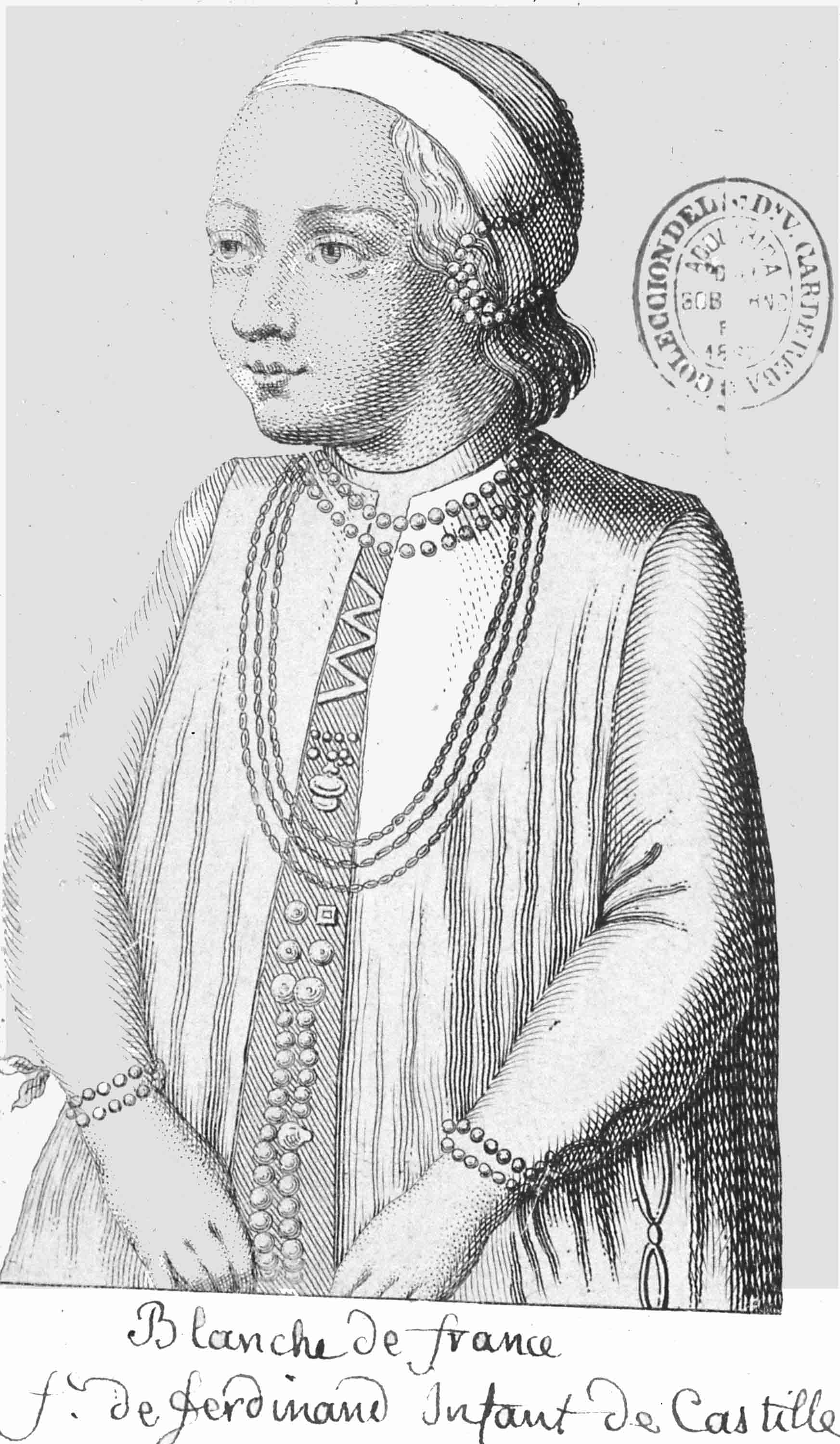 Blanche of France